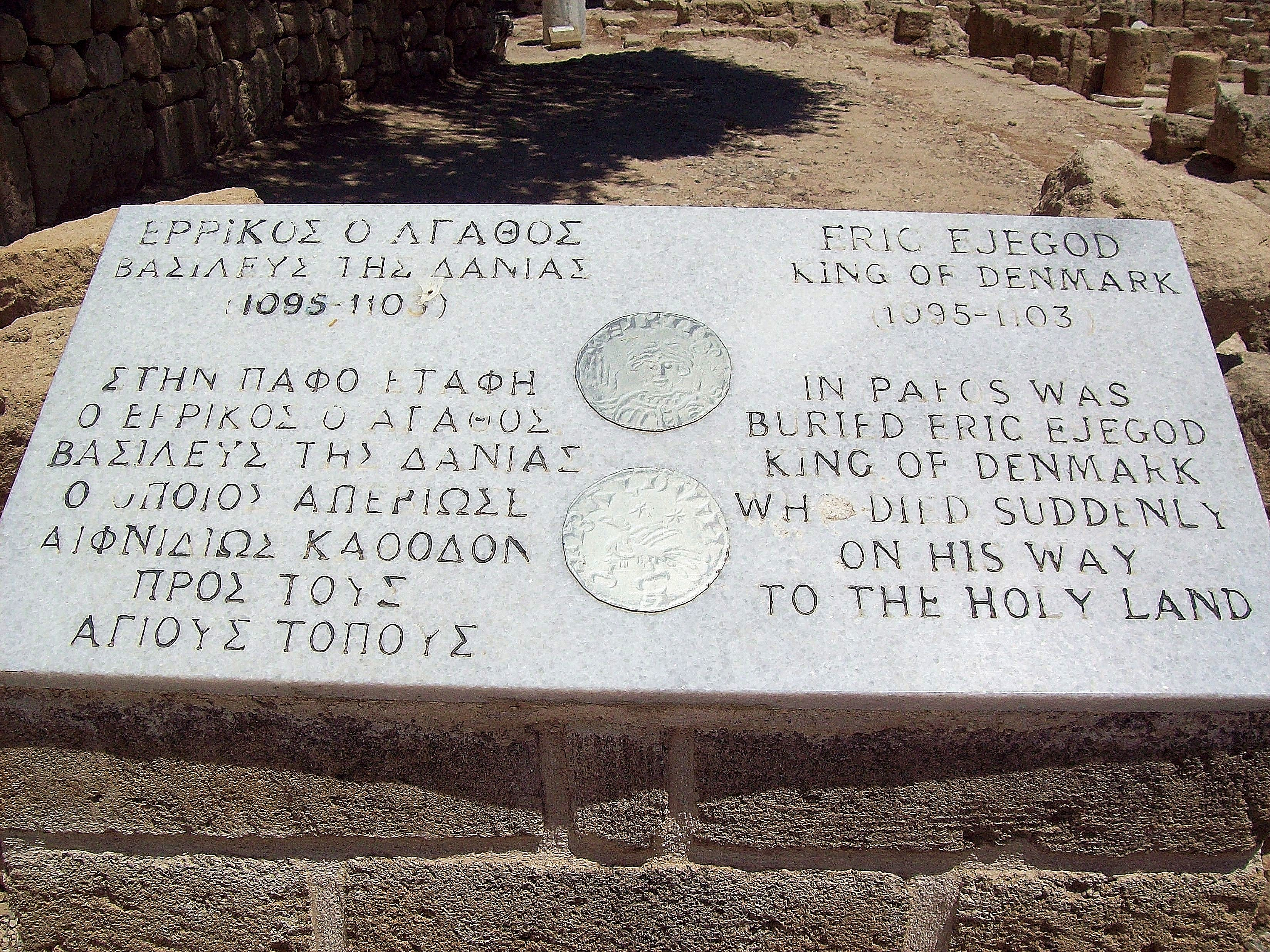 Plaque commemorating Eric I of Denmark in Paphos, Cyprus.